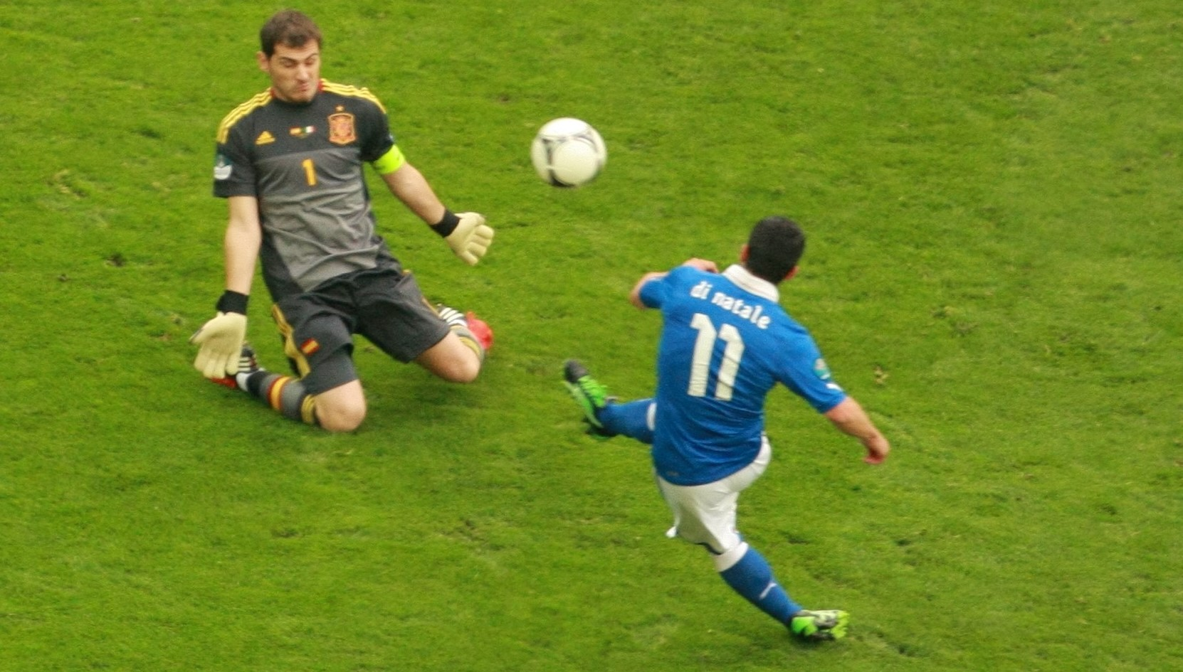 UEFA Euro 2012